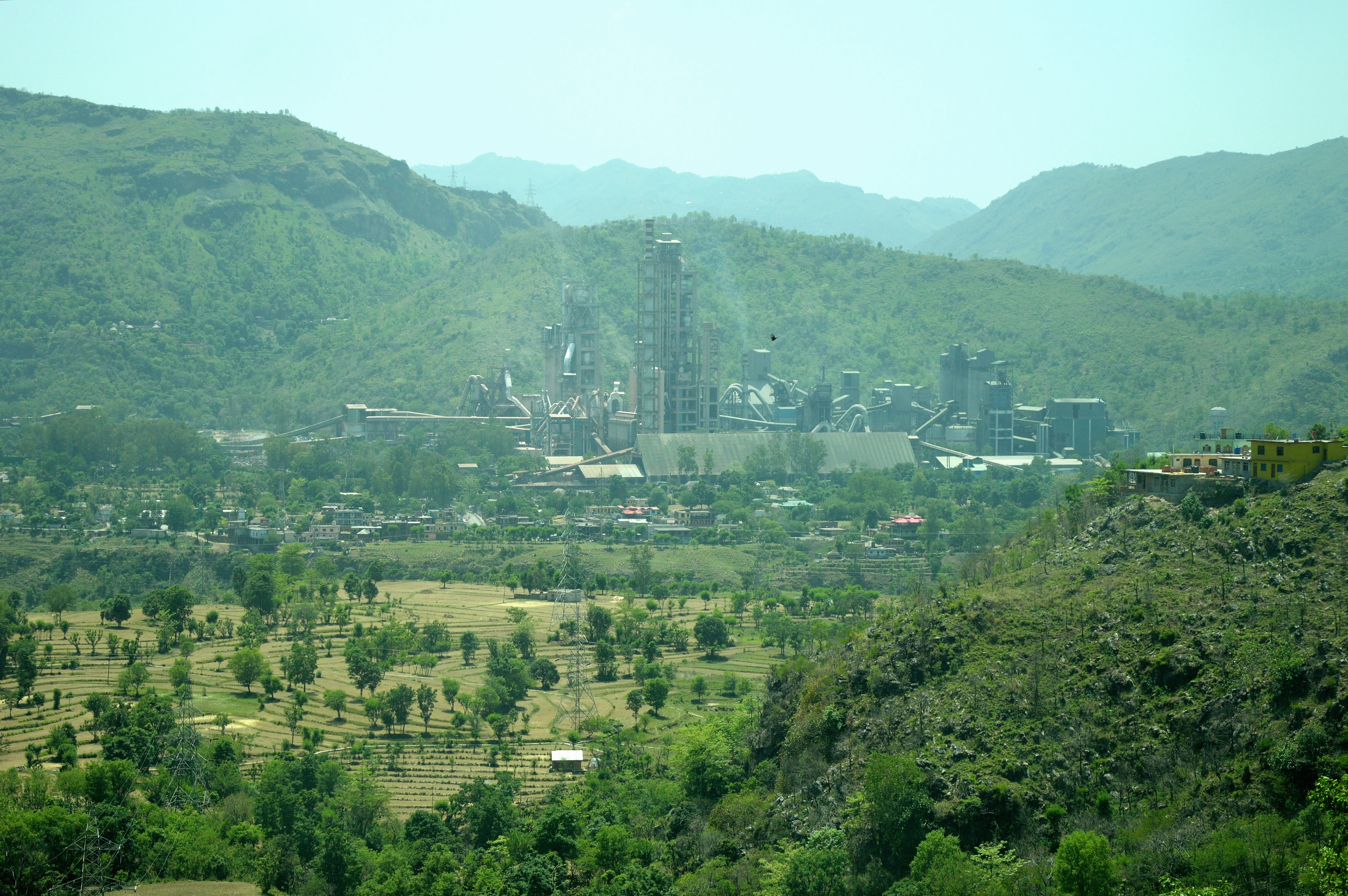 Photographed in Himachal Pradesh.